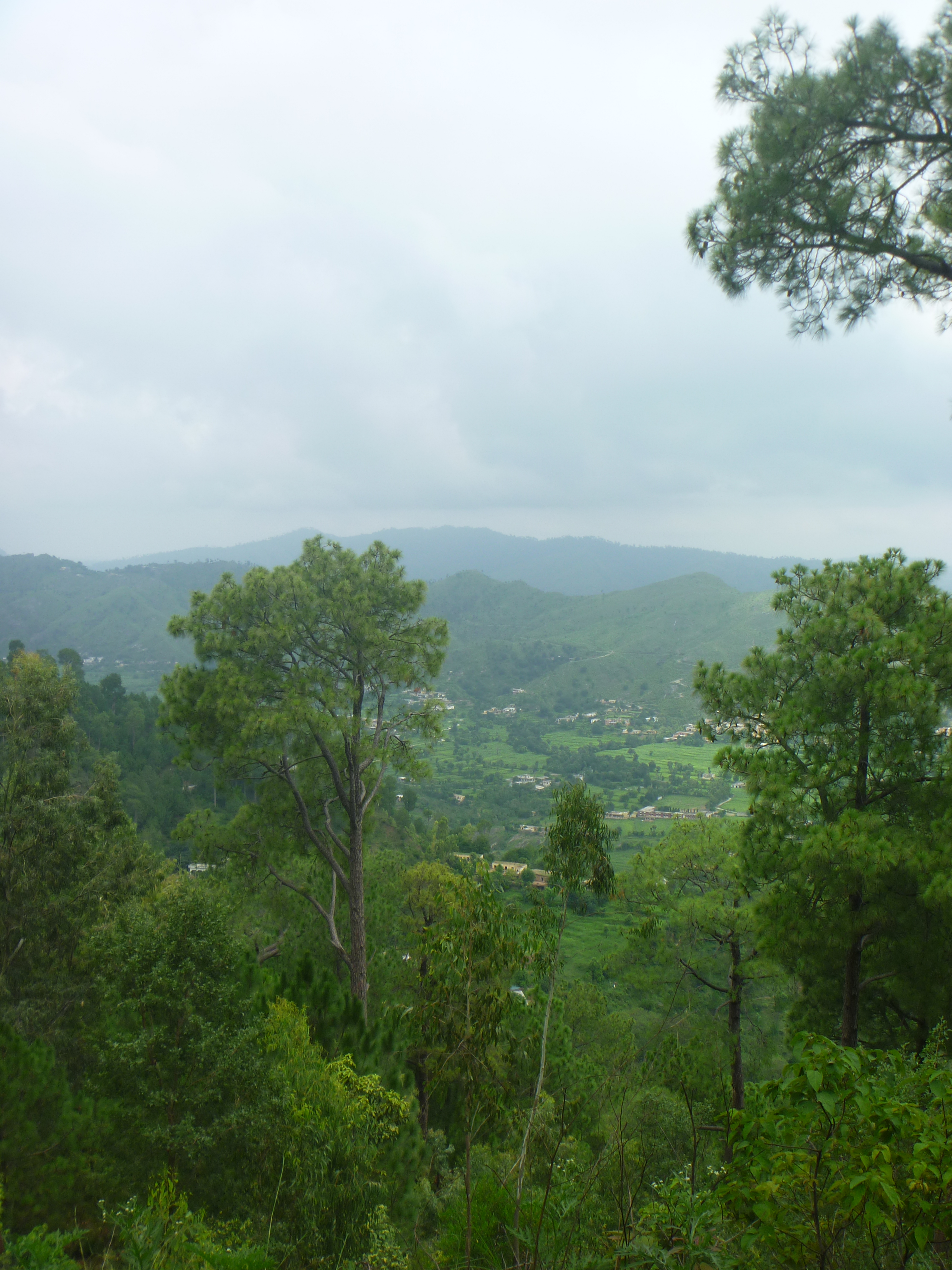 Picturesque View of Samahni Valley near Jandi chontara